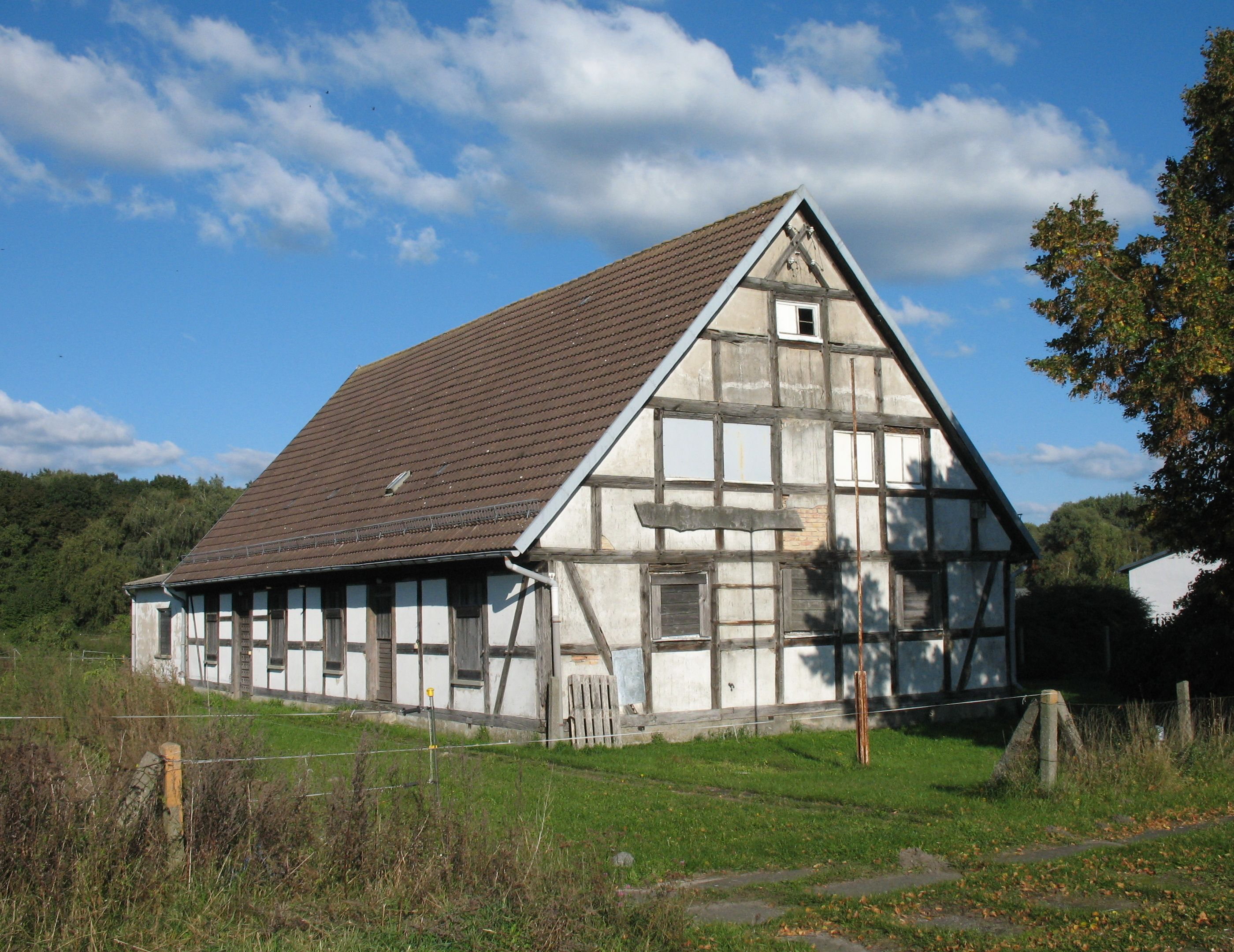 Building in Fehrbellin-Zietenhorst in Brandenburg, Germany